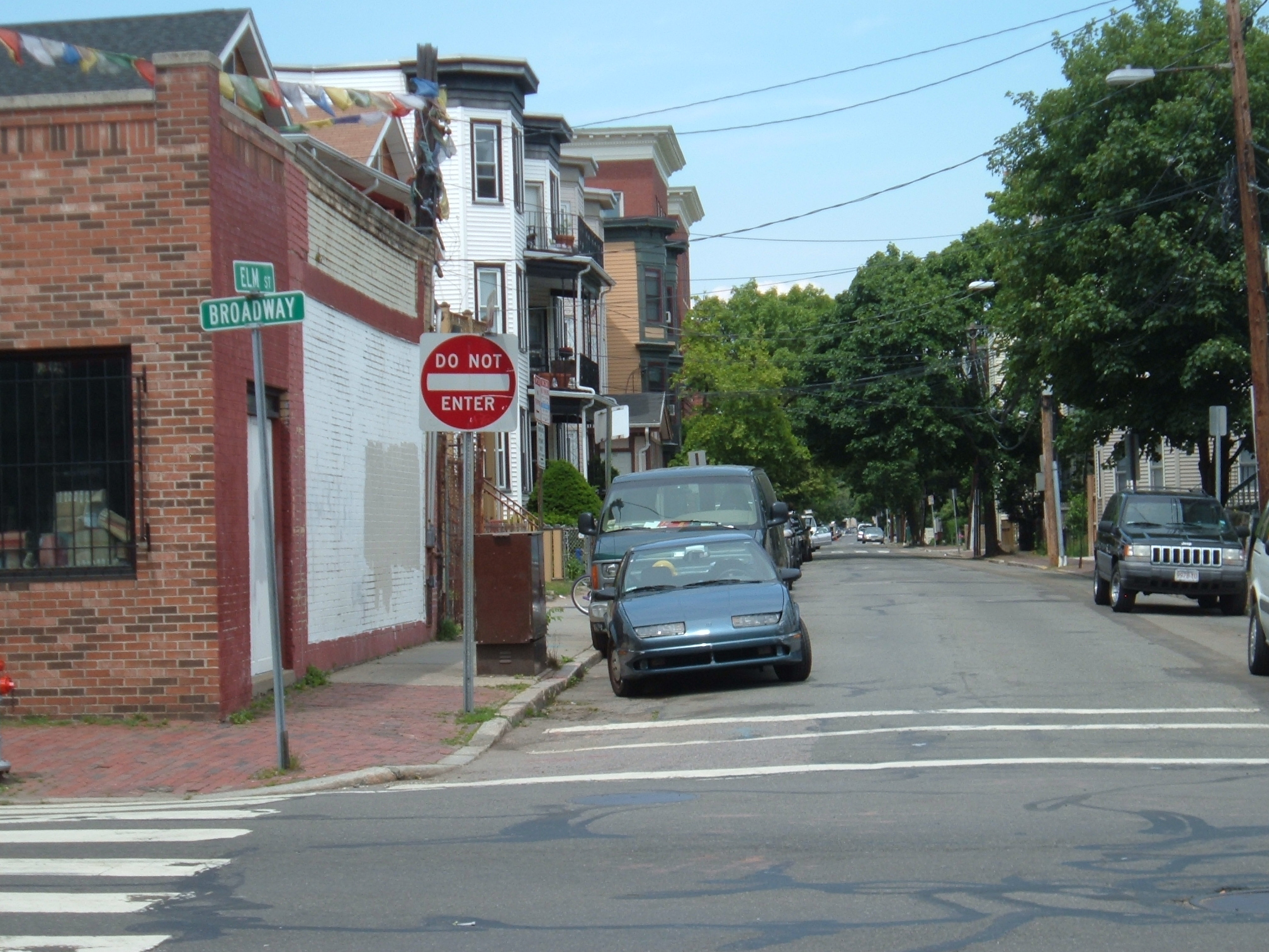 View of Elm Street at the corner of Broadway in Cambridge, Massachusetts, former proposed route of Interstate 695 (Massachusetts).